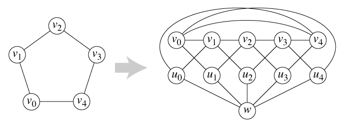 The Grötzsch graph as the Mycielskian of a 5-cycle graph.